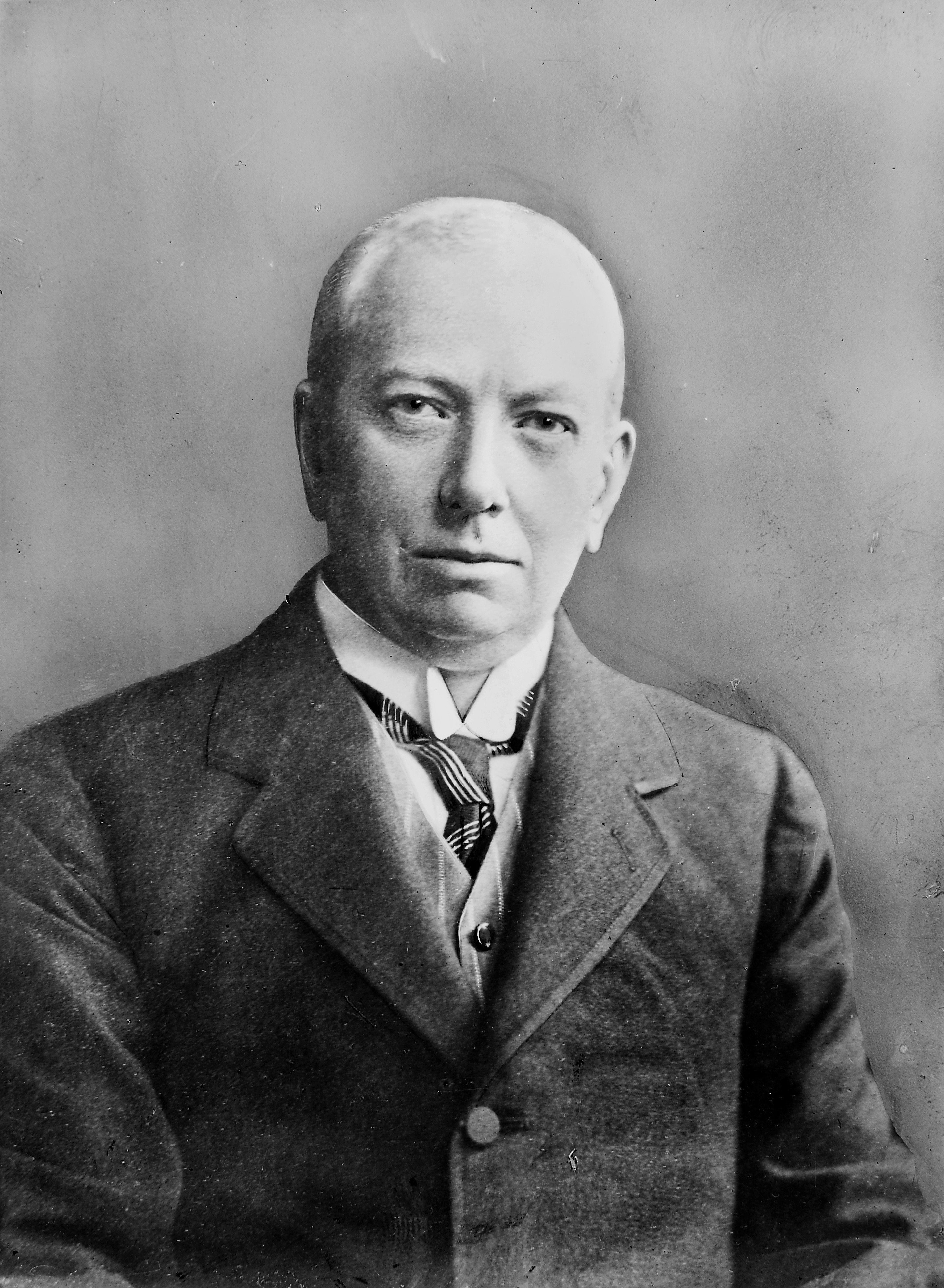 Portrait of George Alexander Gibson Wellcome states: From: History of Scottish Medicine (Original collection) By: Comrie Volume II Available online here on page 682.